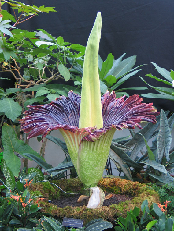 Titan Arum (Amorphophallus titanum) in bloom at the United States Botanic Garden Conservatory on November 20, 2005. At the time this picture was taken, it measured 52.5" (130.5 cm) in height.